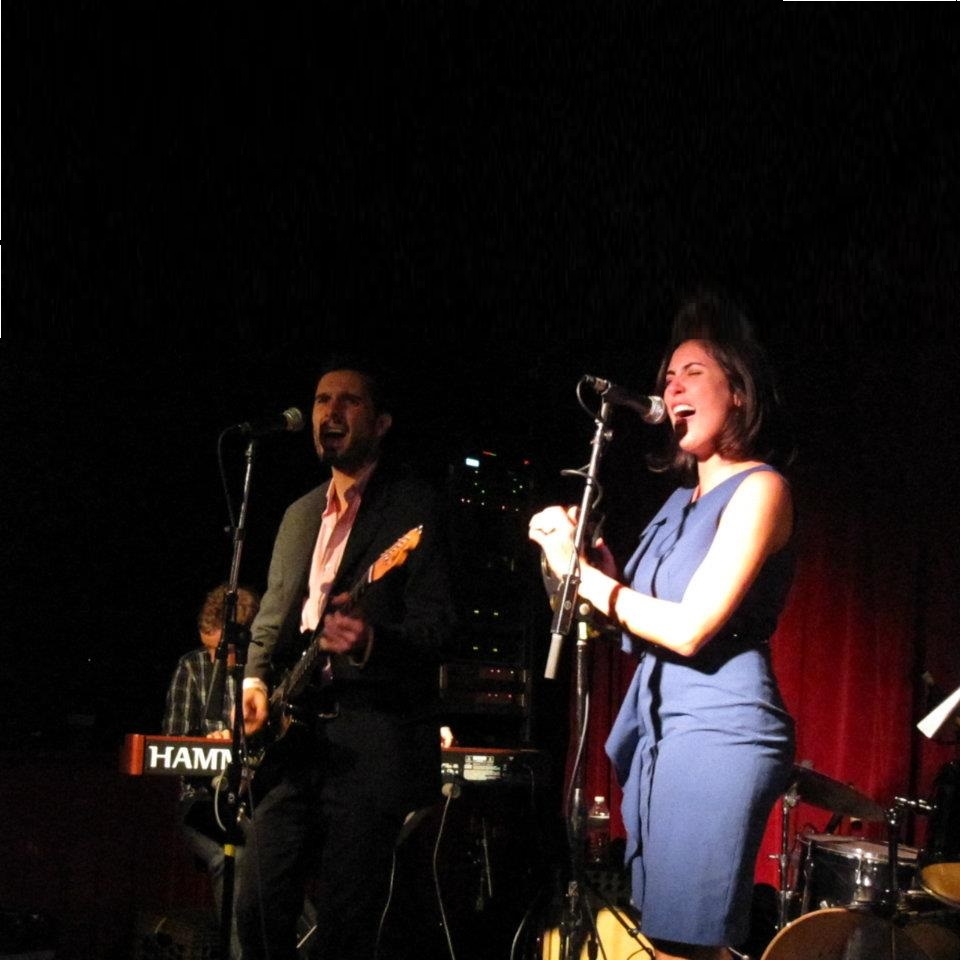 The One And Nines performing live at Maxwells in Hoboken, 2011.